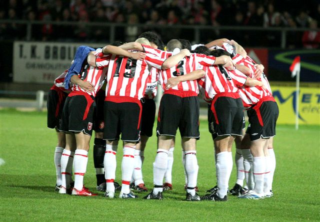 Derry City players in a huddle. Personal photo.